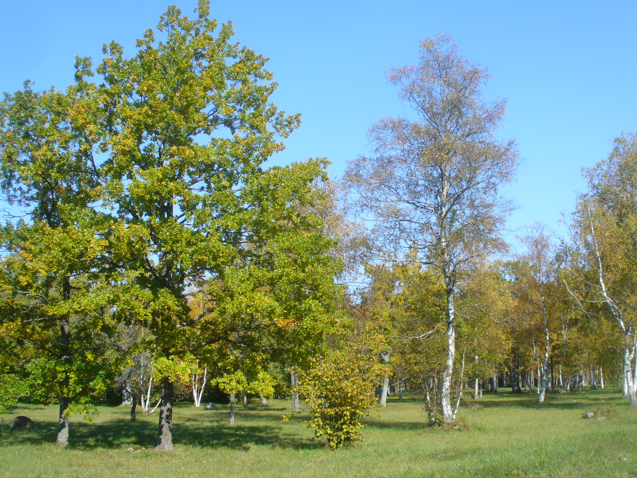 Hanila parish, Lääne county, Estonia.